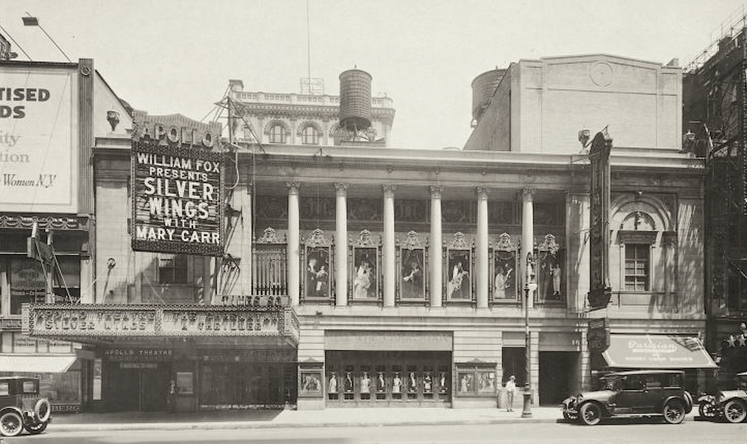 Apollo Theatre entrance (left) and Times Square Theatre, north side of West 42nd Street between 7th and 8th avenues in Manhattan, in 1922. The theaters share a unified facade and marquee, but the Apollo was actually on 43rd Street. In 1996 the Apollo was demolished and a new house was constructed on the combined "footprint" of the Apollo Theatre and the Lyric Theatre, which it adjoined on 43rd Street. Some architectural elements from the two theaters were preserved and incorporated in the new theater, which opened on January 18, 1998 as the Ford Center for the Performing Arts. After several name changes, it was renamed the Lyric in 2014. The facade and the Times Square Theatre are extant (in 2014). In the image an electrical sign announces the film Silver Wings, starring Mary Carr, at the Apollo, where it played from May 17 to August 20, 1922.[1][2] The marquee advertises The Charlatan ("A Thriller"), a play which ran at the Times Square from April 24 to June 17, 1922.[3][4] Notes ↑ "The Screen" The New York Times (May 18, 1922) (review of Silver Wings) ↑ "Picture Plays and People" The New York Times (August 20, 1922), third item (announcing end of run) ↑ "The Charlatan Exciting" The New York Times (April 25, 1922) (review) ↑ "Gossip of the Rialto" NYT (June 18, 1922) col. 2 bottom (closed)